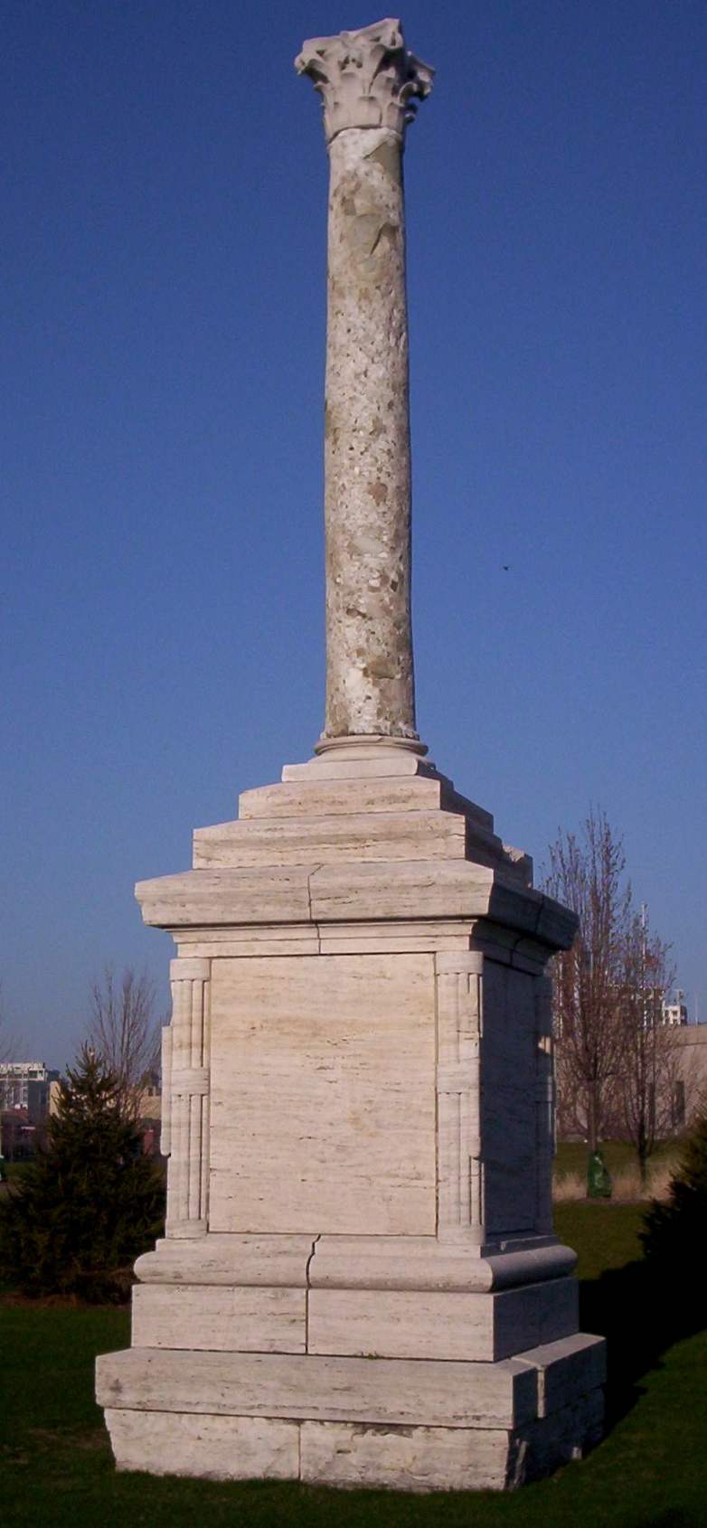 Balbo Column — from the ruins of the Ancient Roman theatre (Ostia Antica) in Ostia (Italy, Lazio) along the Lakefront Trail, a little south of Soldier Field — Chicago. Italo Balbo (June 5, 1896 - June 28, 1940) was an Italian blackshirt leader, aviator, governor of Italian occupation of Libya, and heir apparent of Benito Mussolini. On November 6, 1926, despite the fact that he knew nothing at the time about aviation, Balbo was appointed Italy's Secretary of State for Air by Mussolini. He went through a crash course of flying instruction and then set out to build the Regia Aeronautica, the Italian air force. On August 19, 1928 he became General of the Air Force and on September 12, 1929 Minister of the Air Force. Balbo led two transatlantic flights. The first was the 1930 flight of twelve Savoia-Marchetti S.55 flying boats from Orbetello, Italy to Rio de Janeiro, Brazil between December 17, 1930 and January 15, 1931. From July 1 - August 12, 1933 he led a flight of 24 flying boats on a round-trip flight from Rome to the Century of Progress in Chicago, Illinois. The flight ended on Lake Michigan near Burnham Park. In honor of this feat, Mussolini donated this column from the ruins of the ancient Roman Ostia Antica theatre in Ostia, Libya to the city of Chicago; it can still be seen along the Lakefront Trail, a little south of Soldier Field. Chicago renamed Seventh Street "Balbo Drive" and staged a parade in his honor. President Franklin D. Roosevelt invited him to lunch. The Sioux even honorarily adopted Balbo as "Chief Flying Eagle" Back home in Italy, he was promoted to Air Marshal. After this, the term Balbo entered common usage to describe any large formation of aircraft.